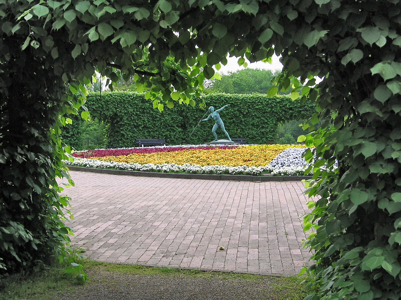 Sculpture Speerwerferin (1937) by Ernst Seger in the Grugapark Essen/Germany.